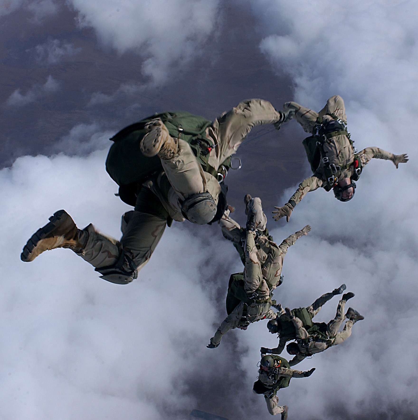 Pararescuemen from the 38th Rescue Squadron and the 58th Rescue Squadron, Nellis Air Force Base, Nev., jump from a HC-130P/N for a High Altitude Low Opening free fall drop from 12,999 feet in support of Operation Enduring Freedom.